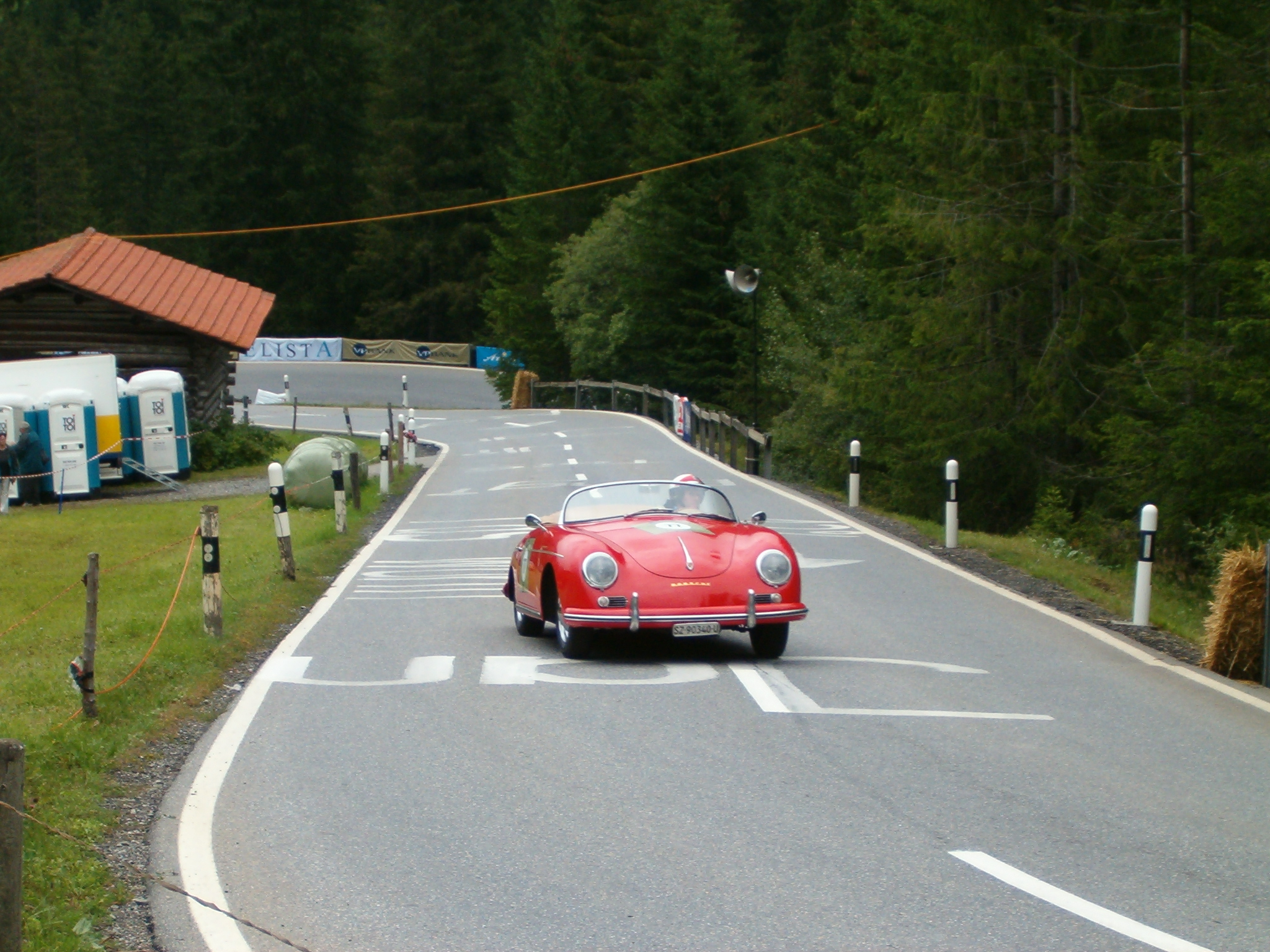 Arosa ClassicCar Porsche 356